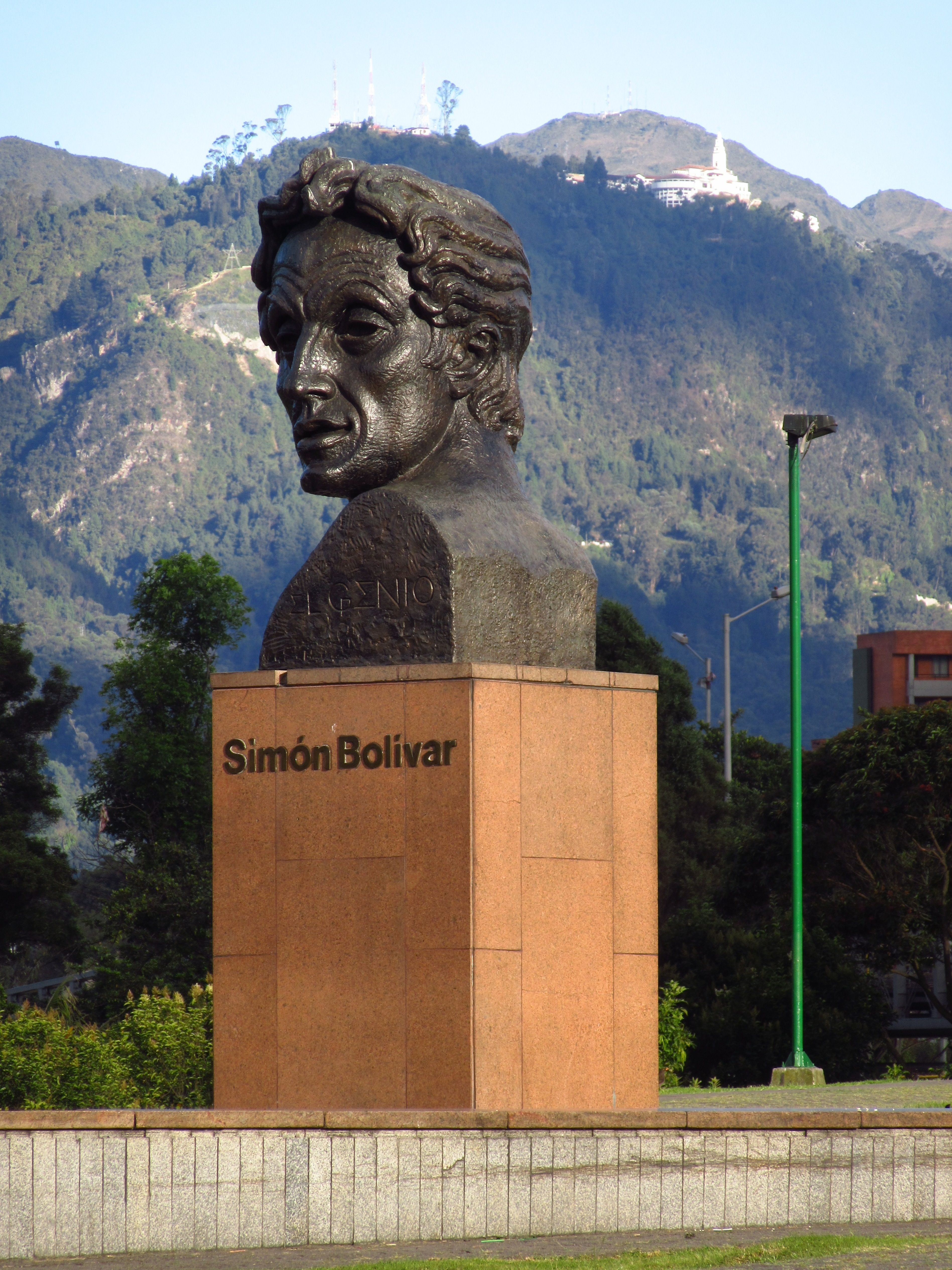 Bogotá